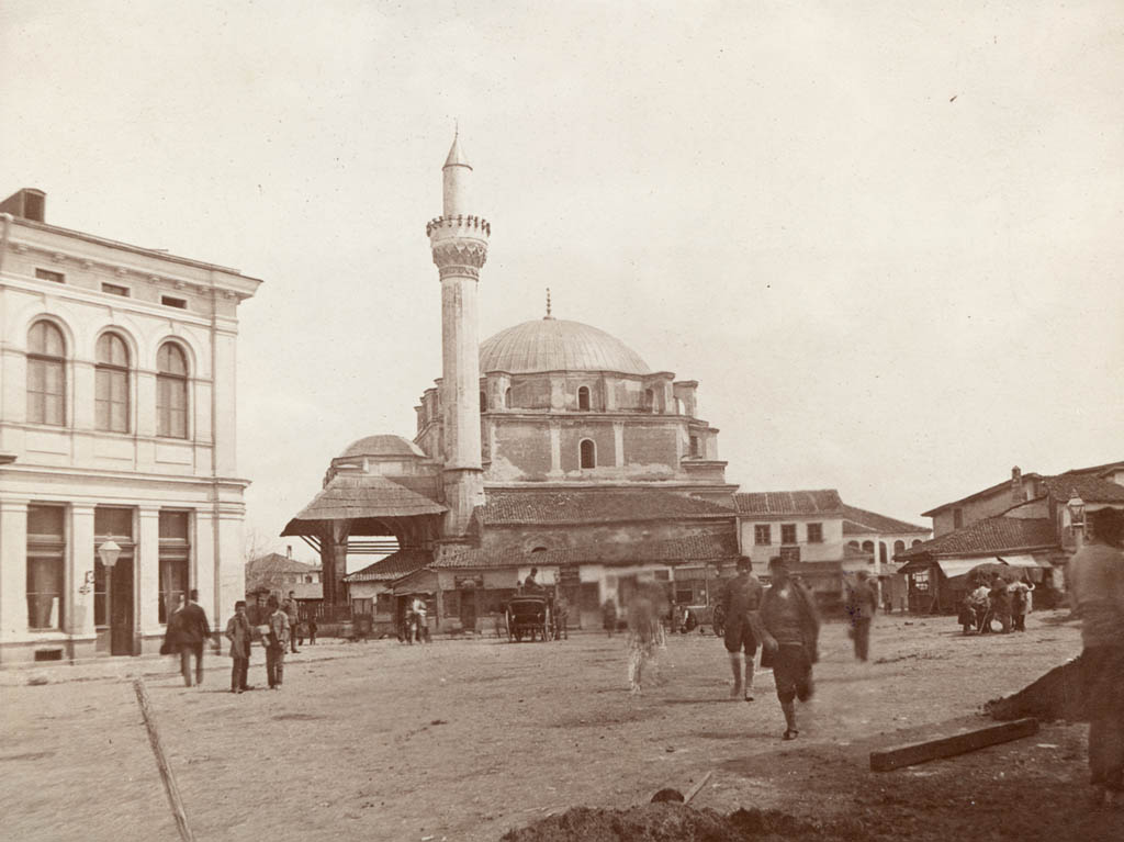 Banya Bashi Mosque and minaret in Sofia.